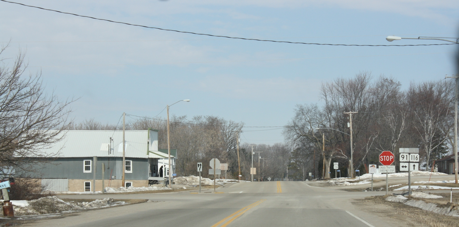 Looking north at the southern terminus of Wisconsin Highway 116, Wisconsin Highway 91 is the cross road, at Waukau, Wisconsin.